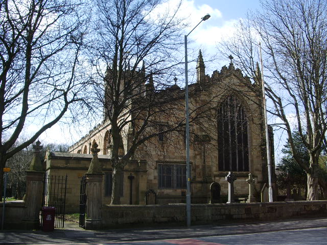 The Parish Church of St Peter, Burnley